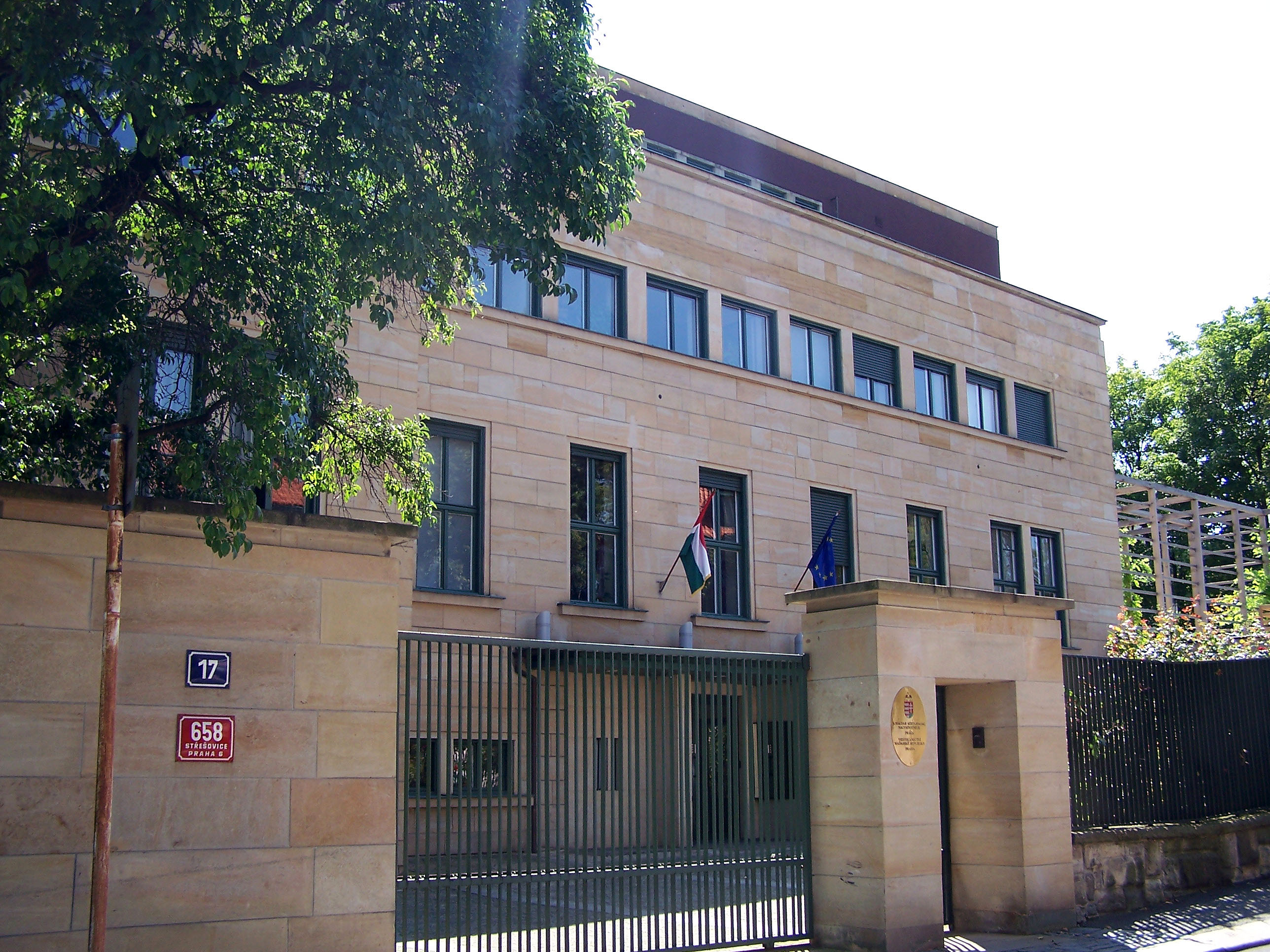 Embassy of Hungary in Prague, Czech Republic